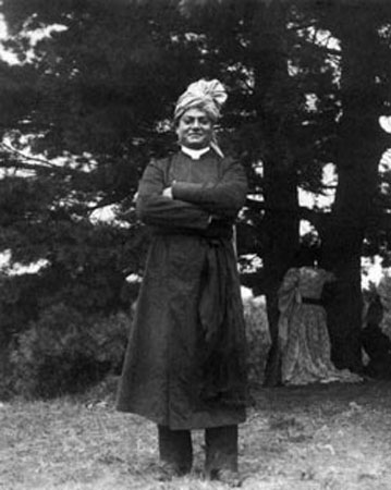 Photo of Swami Vivekananda (died 1902). This image was taken in Greenacre, Maine in August, 1894